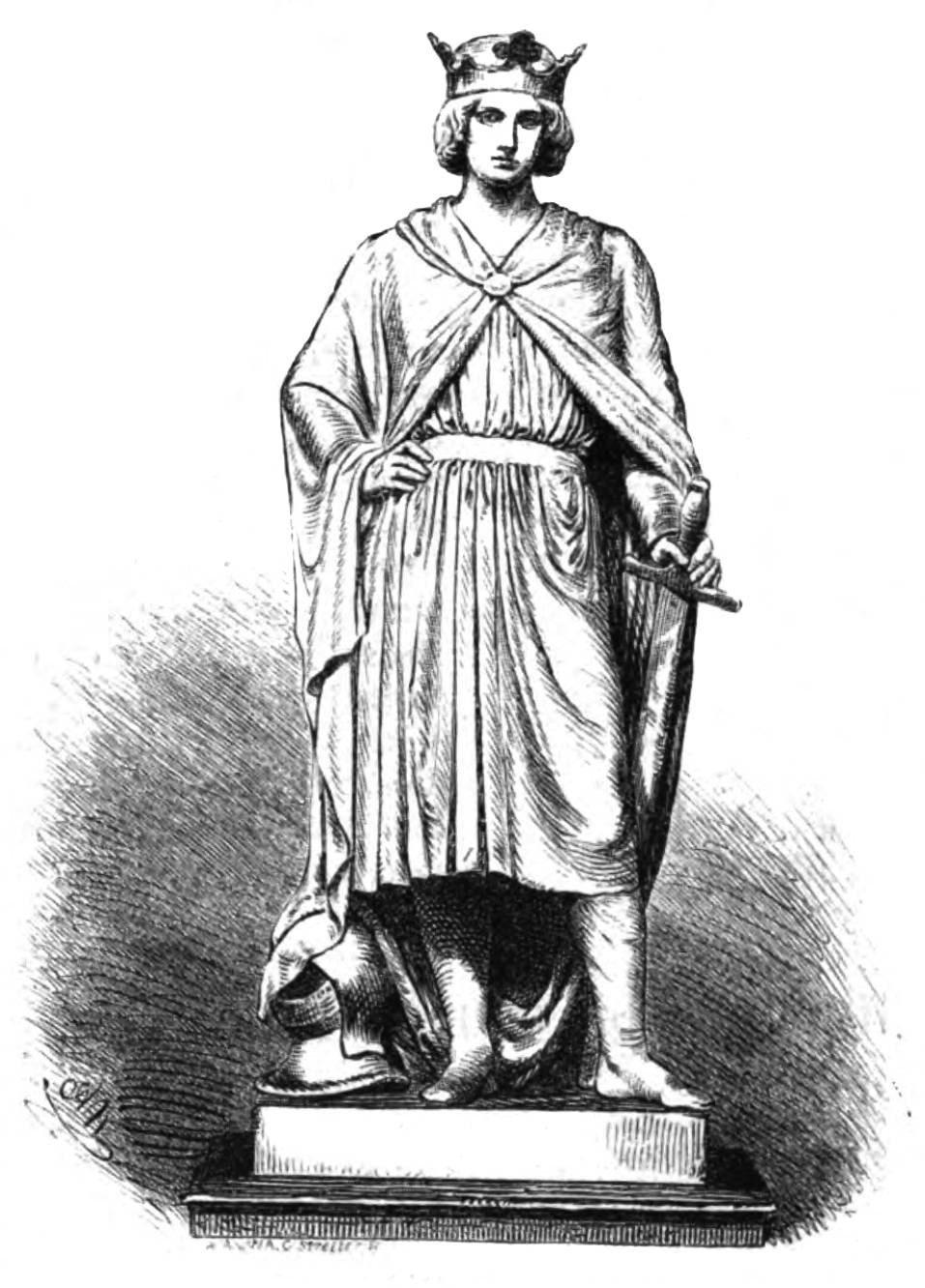 caption: "Standbild Conradin’s in der Kirche Maria bei Carmina in Neapel."